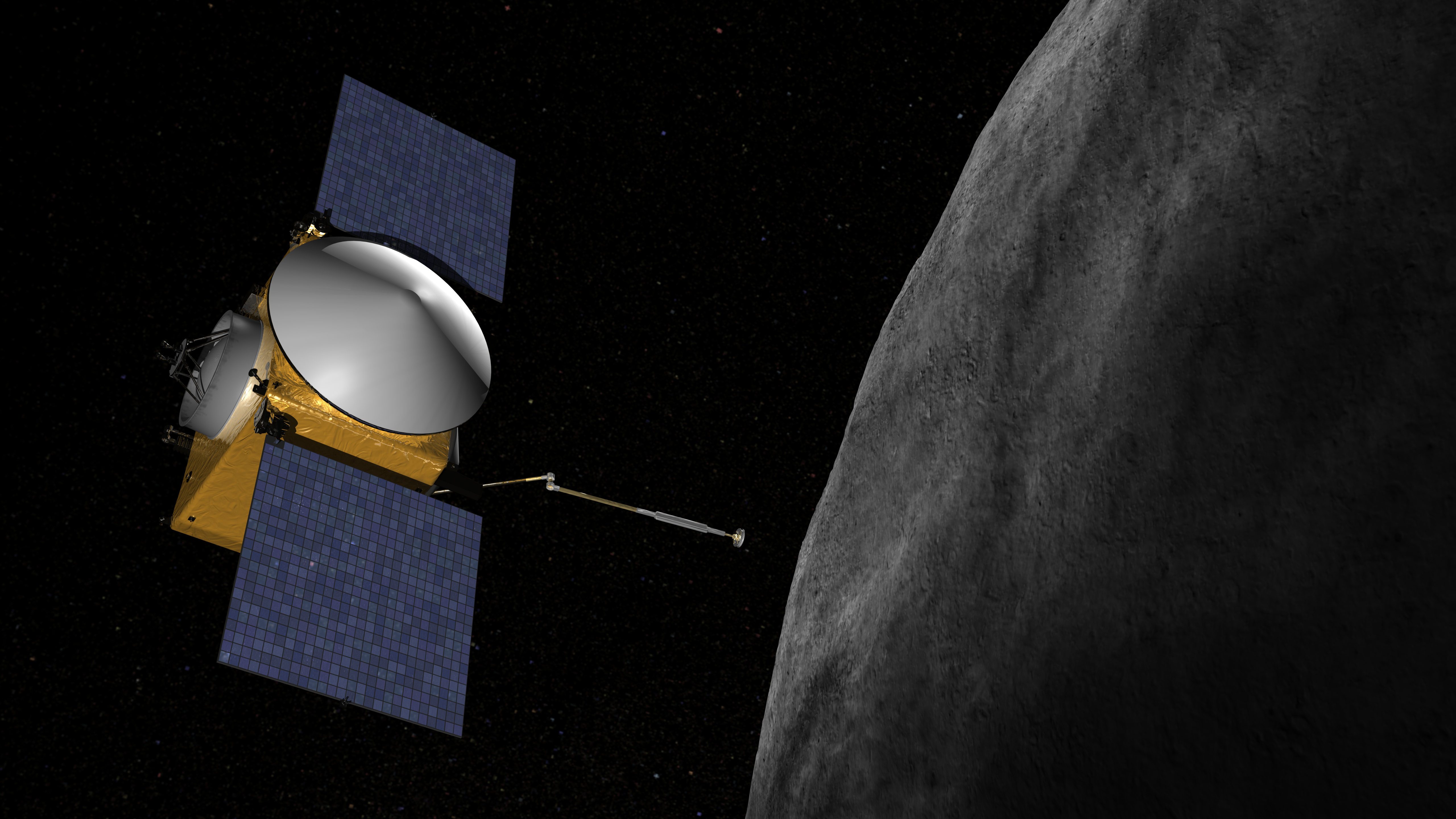 Artist concept of OSIRIS-REx.